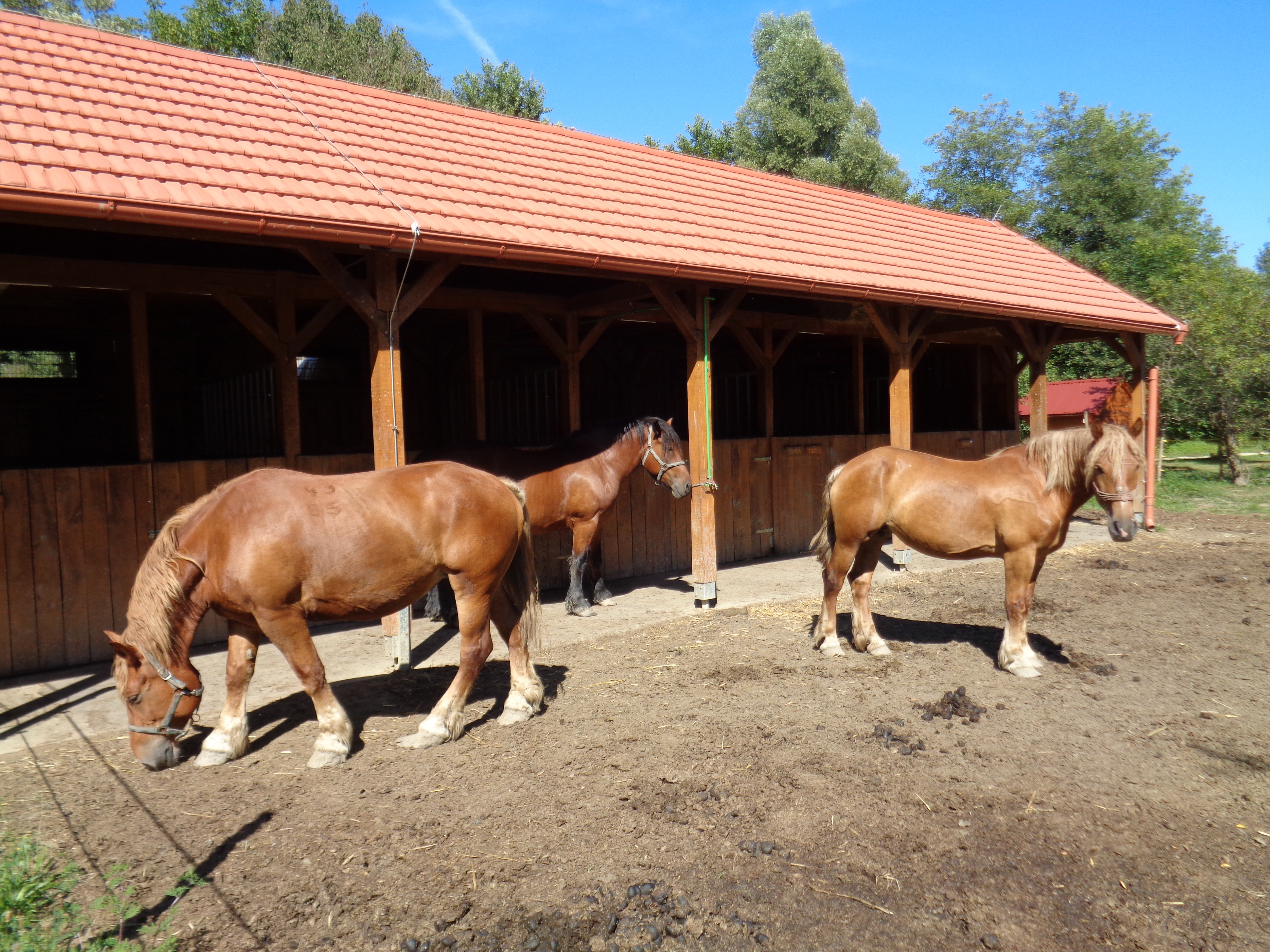 Ergela međimurskog konja = Medjimurie horse stud farm in Žabnik, Medjimurje County, northern Croatia - mares at stables